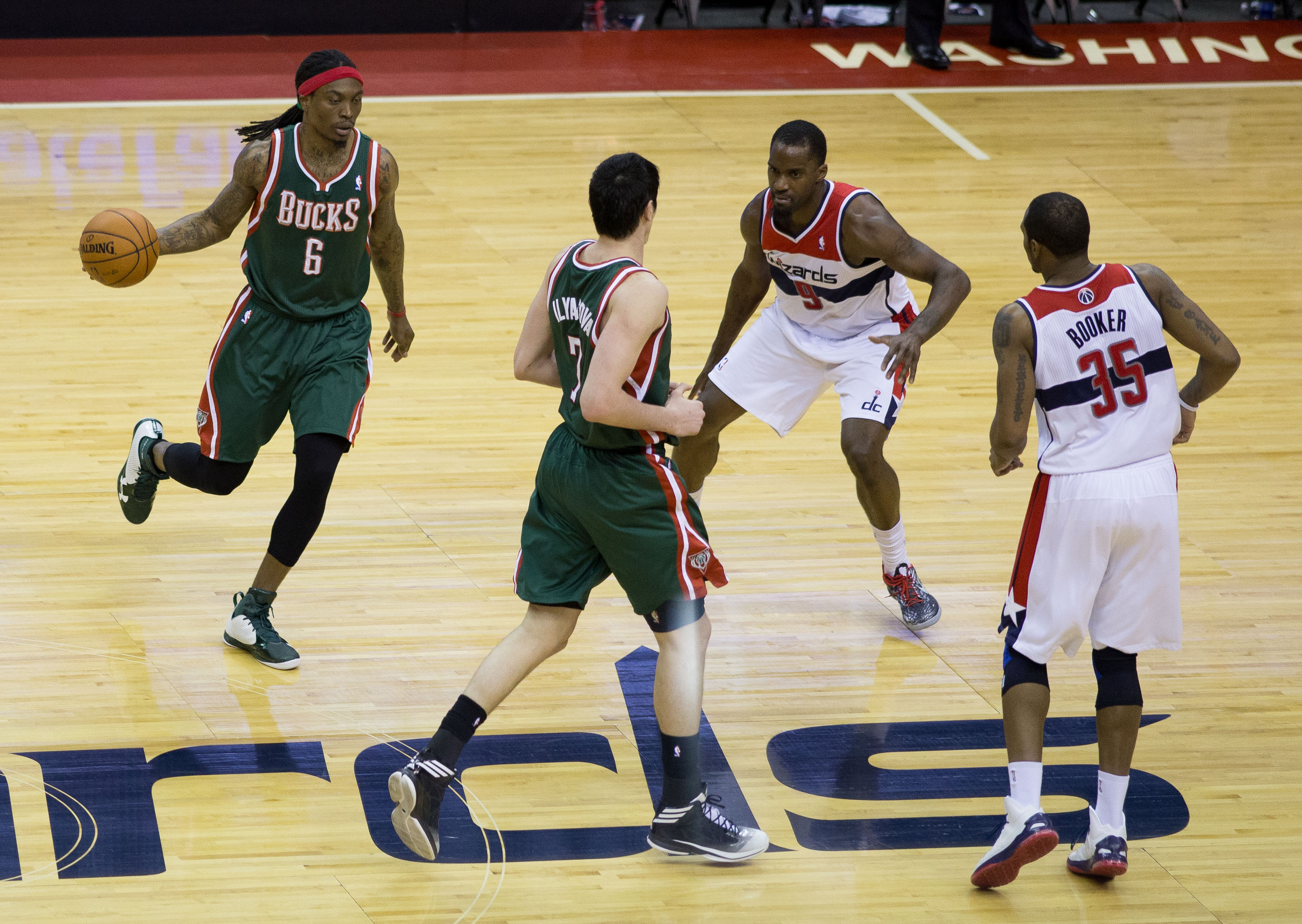 Milwaukee Bucks at Washington Wizards March 13, 2013